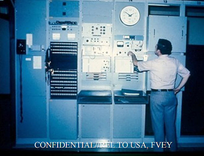 Equipment at the NSA's Yakima Research Station (YRS), which was part of the ECHELON program. Probably 1970s.